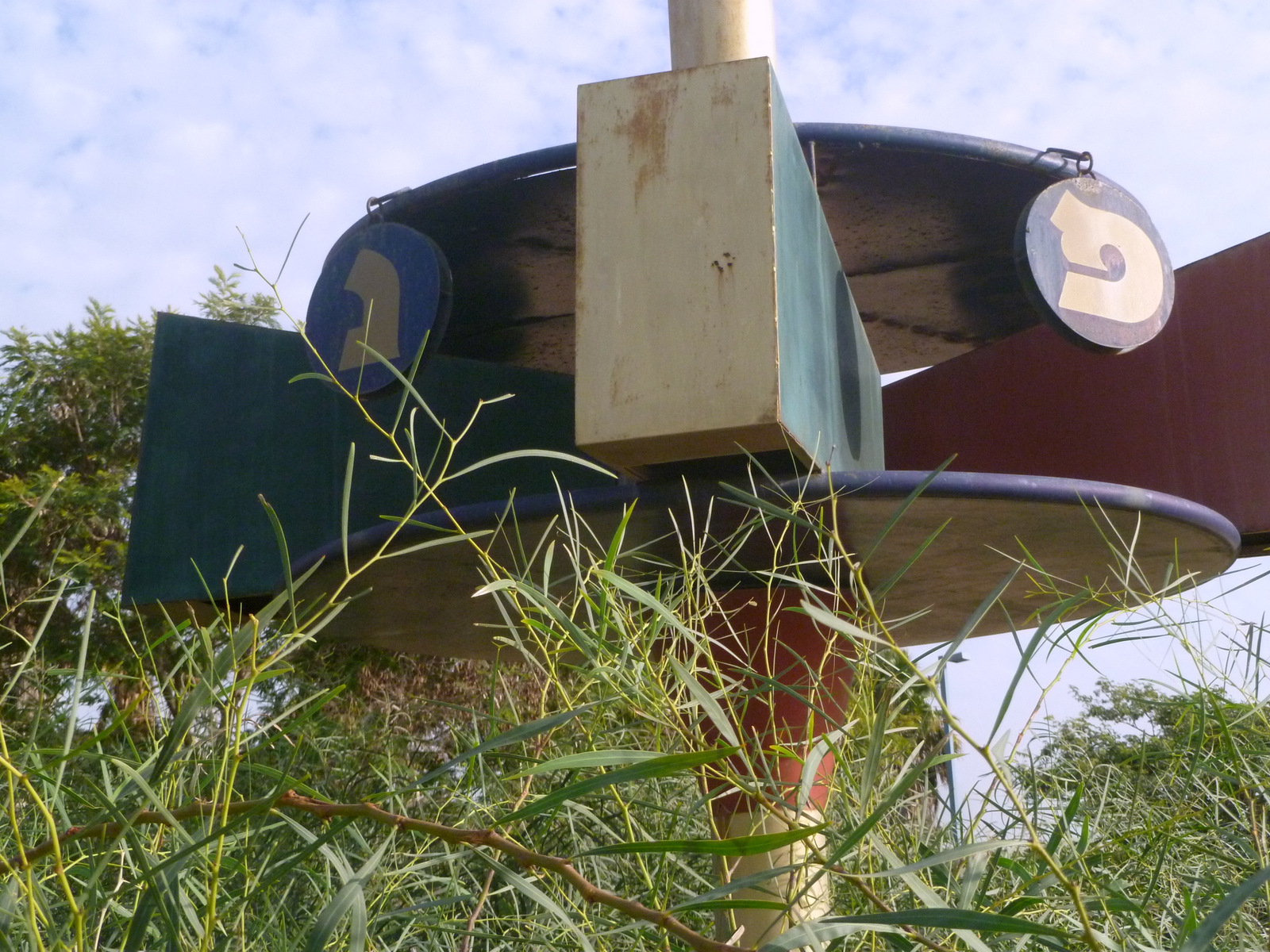 The largest draidel in the world, Jewish holidays